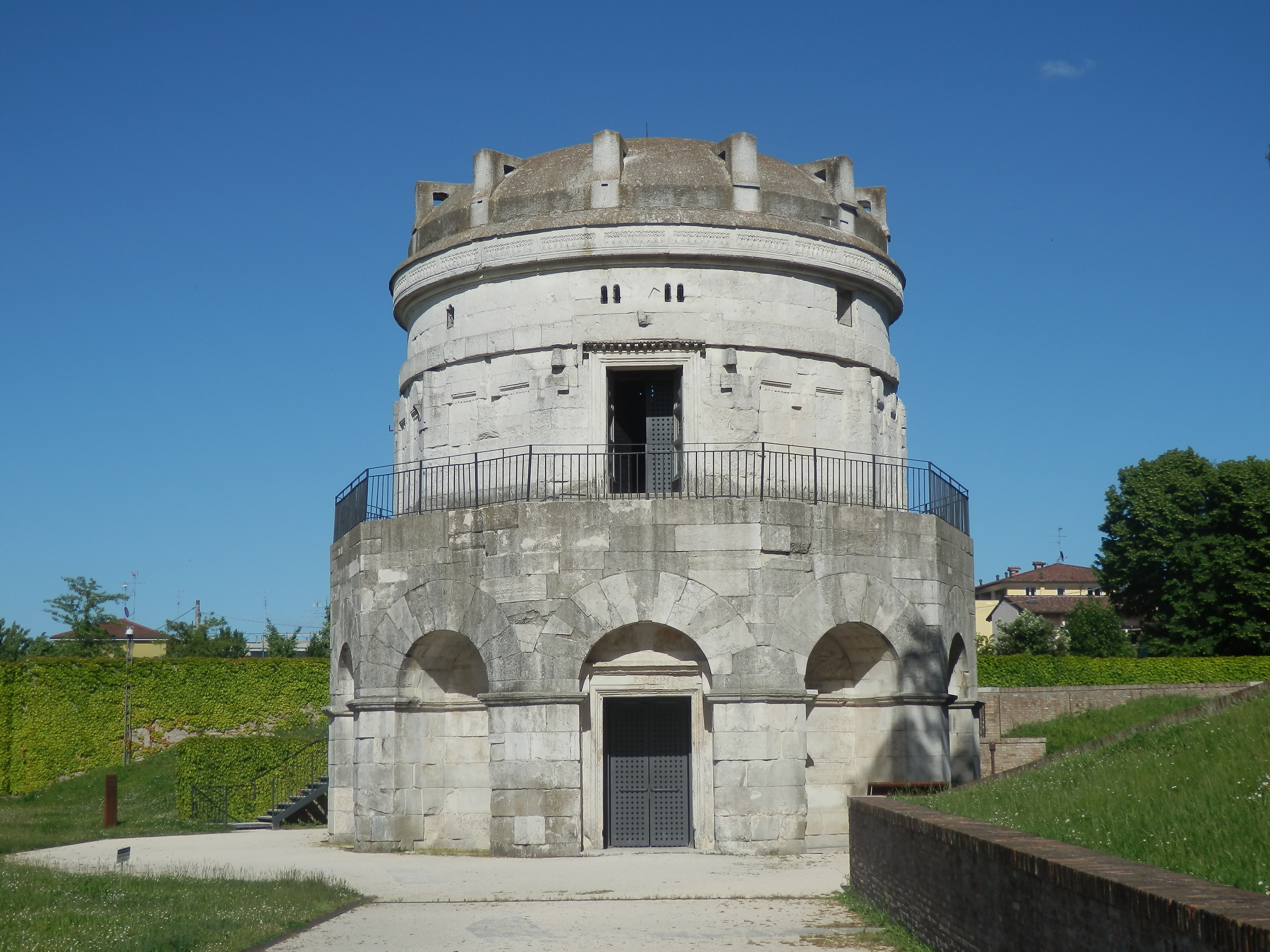 Mausoleum of Theodoric (Ravenna)11